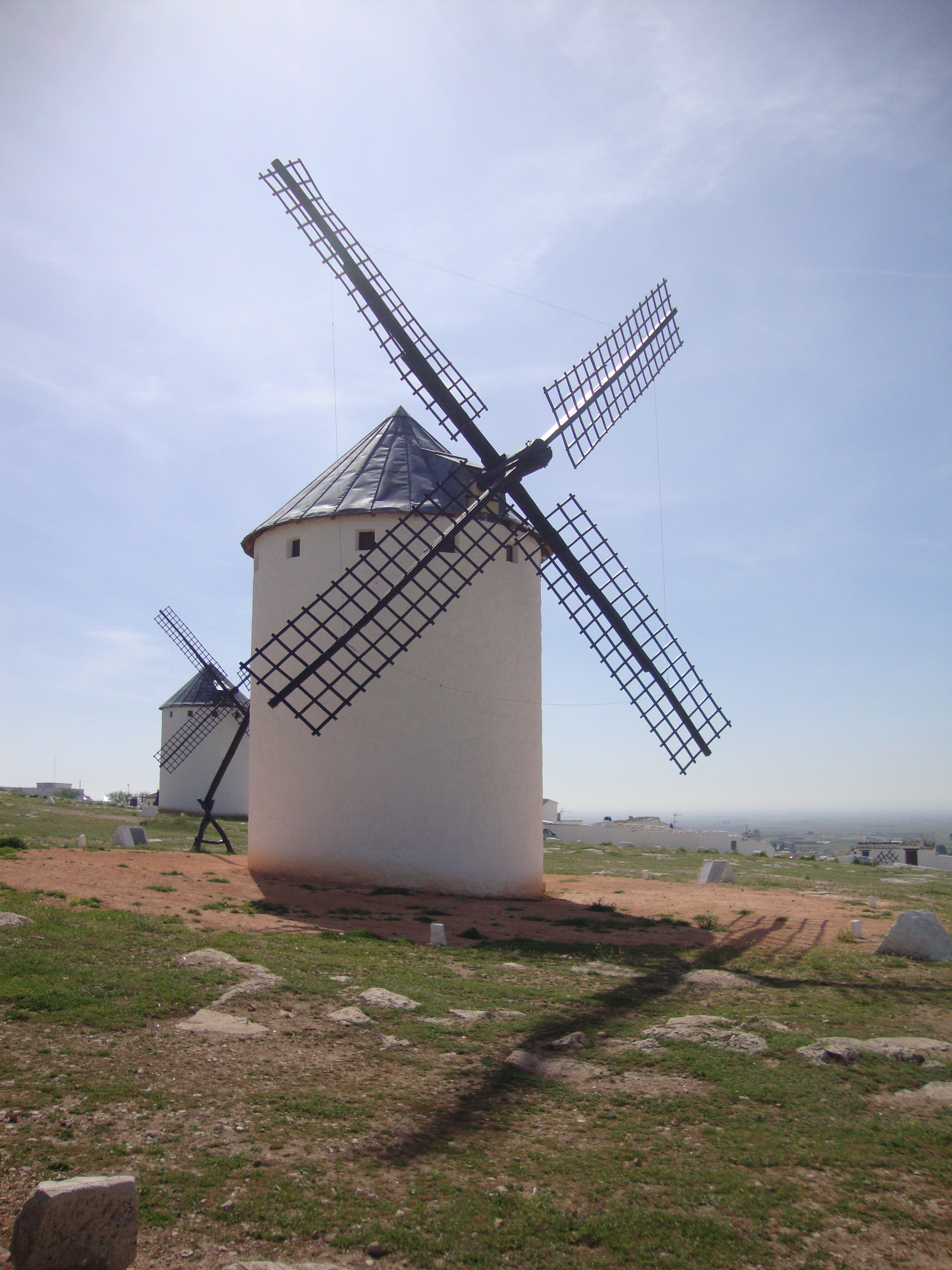 Windmill in Campo de Criptana, Castile_La Mancha